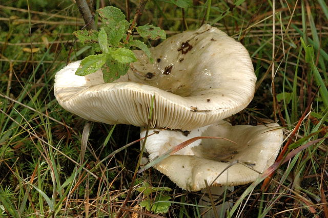 Russula aeruginea from Commanster, Belgium. The determination of the species shown in this picture has been verified.